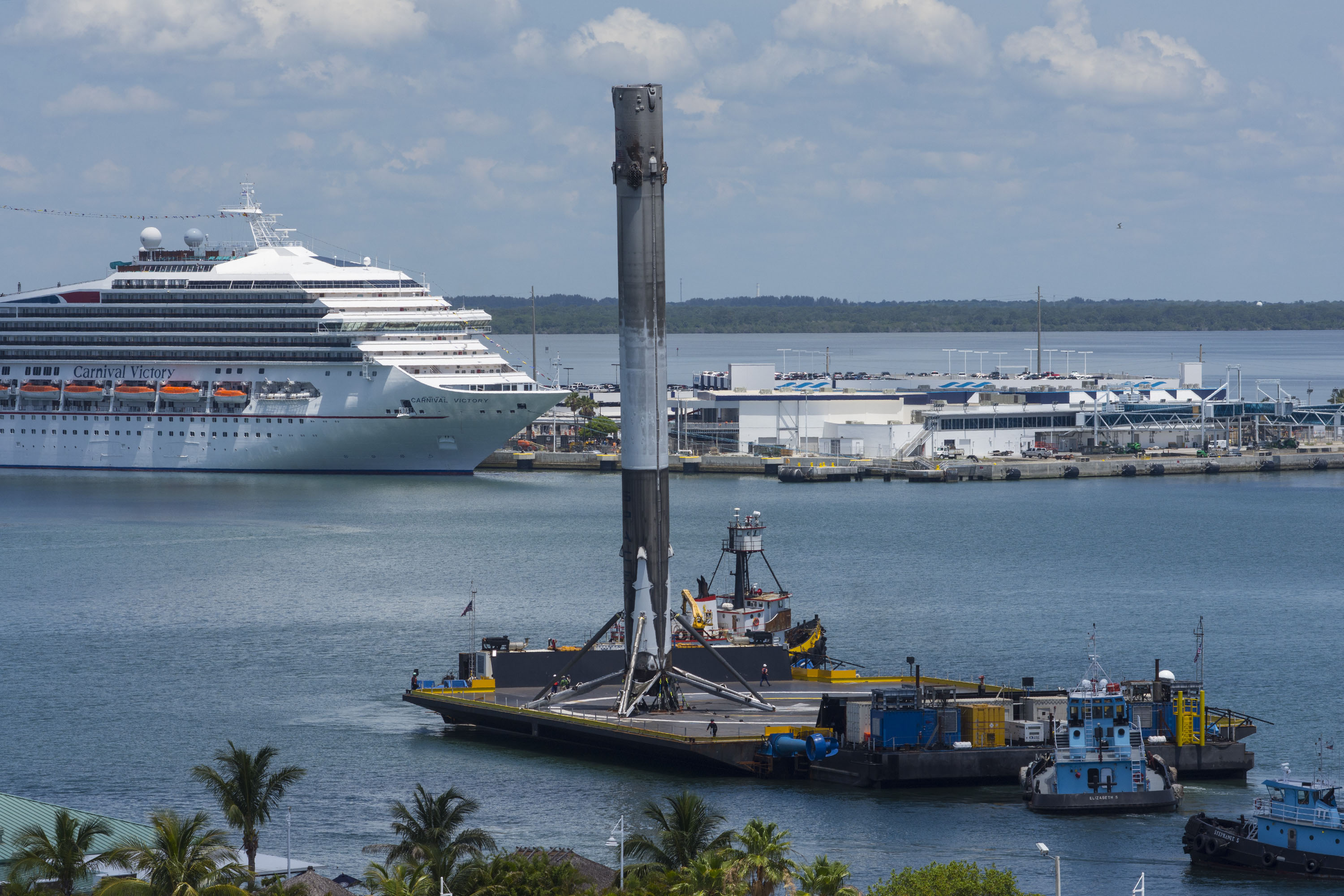 First stage of a Falcon 9 Full Thrust rocket arrives in Port Canaveral on the Autonomous spaceport drone ship (ASDS) Of Course I Still Love You. The stage landed successfully after launching the Thaicom 8 telecommunications satellite to a geostationary transfer orbit.